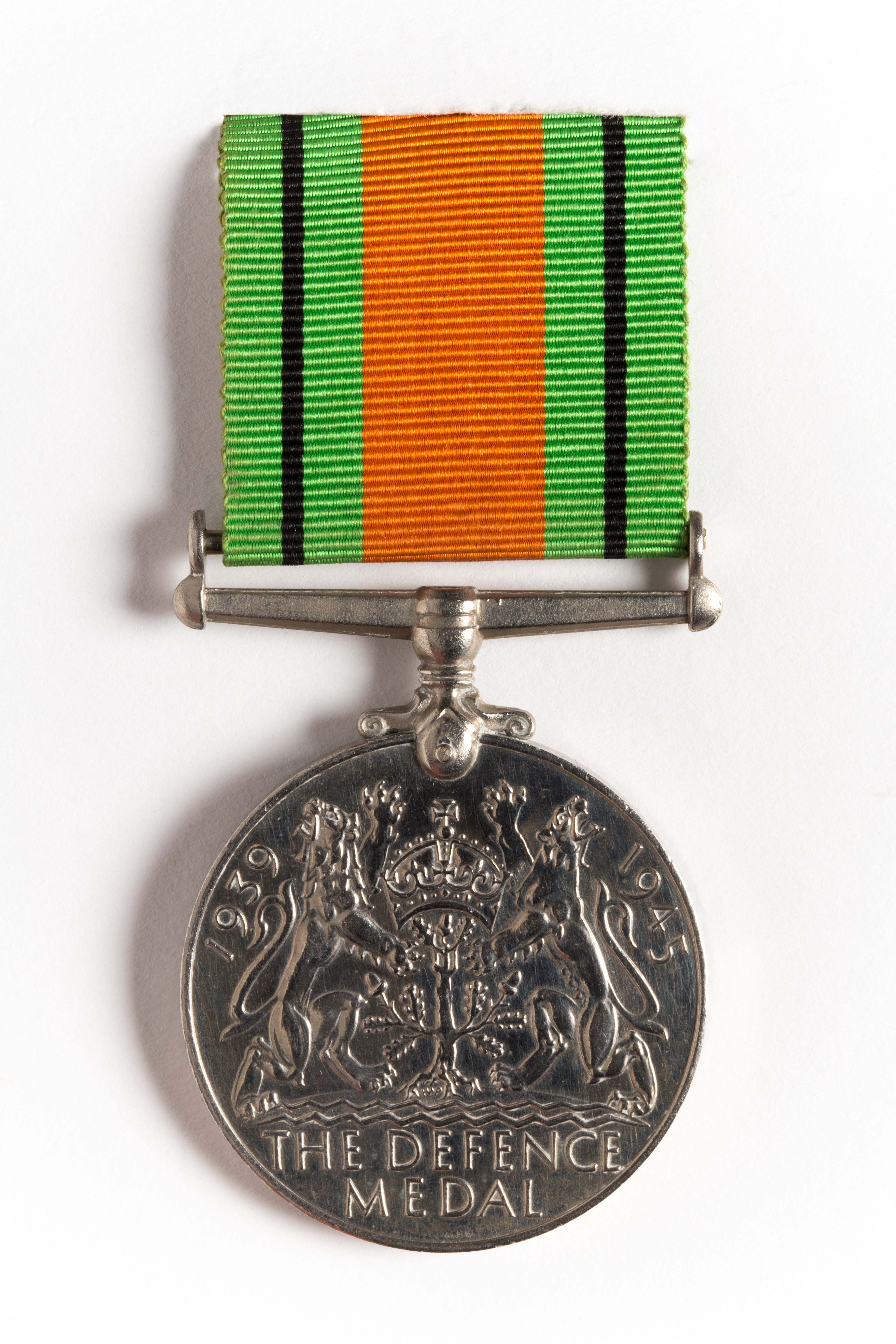 Defence Medal 1939-45, WW2 part of medal set awarded to Lieut. Colonel Frederick Charles Cornwall, 30th Battalion, 2NZEF, WW2 cupronickel medal 36mm diameter, plain, non-swivelling suspender, with ribbon Obverse- bareheaded effigy of King George VI, facing left. Around the perimeter is the legend "GEORGIVS VI D-G-BR-OMN-REX F-D-IND-IMP." reverse- Royal Crown resting on an oak sapling, flanked by a lion and a lioness above stylised waves. At the top left is the year "1939" and at the top right the year "1945". The exergue has the words "THE DEFENCE MEDAL" in two lines. Ribbon- 32mm wide grosgrain ribbon, bands of green, black then green, repeated and separated by a wide orange band.